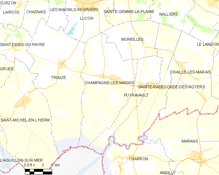 Map of French municipality Champagné-les-Marais